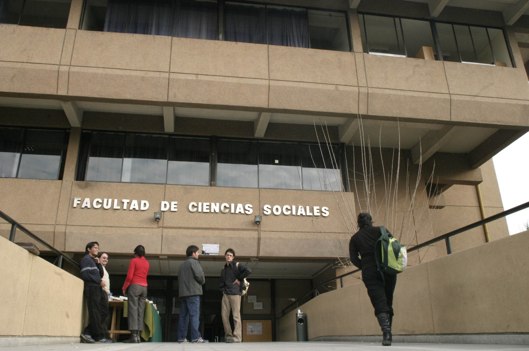 Facultad ubicada en el Campus Juan Gómez Millas de la Universidad de Chile en la comuna de Nuñoa, Santiago.